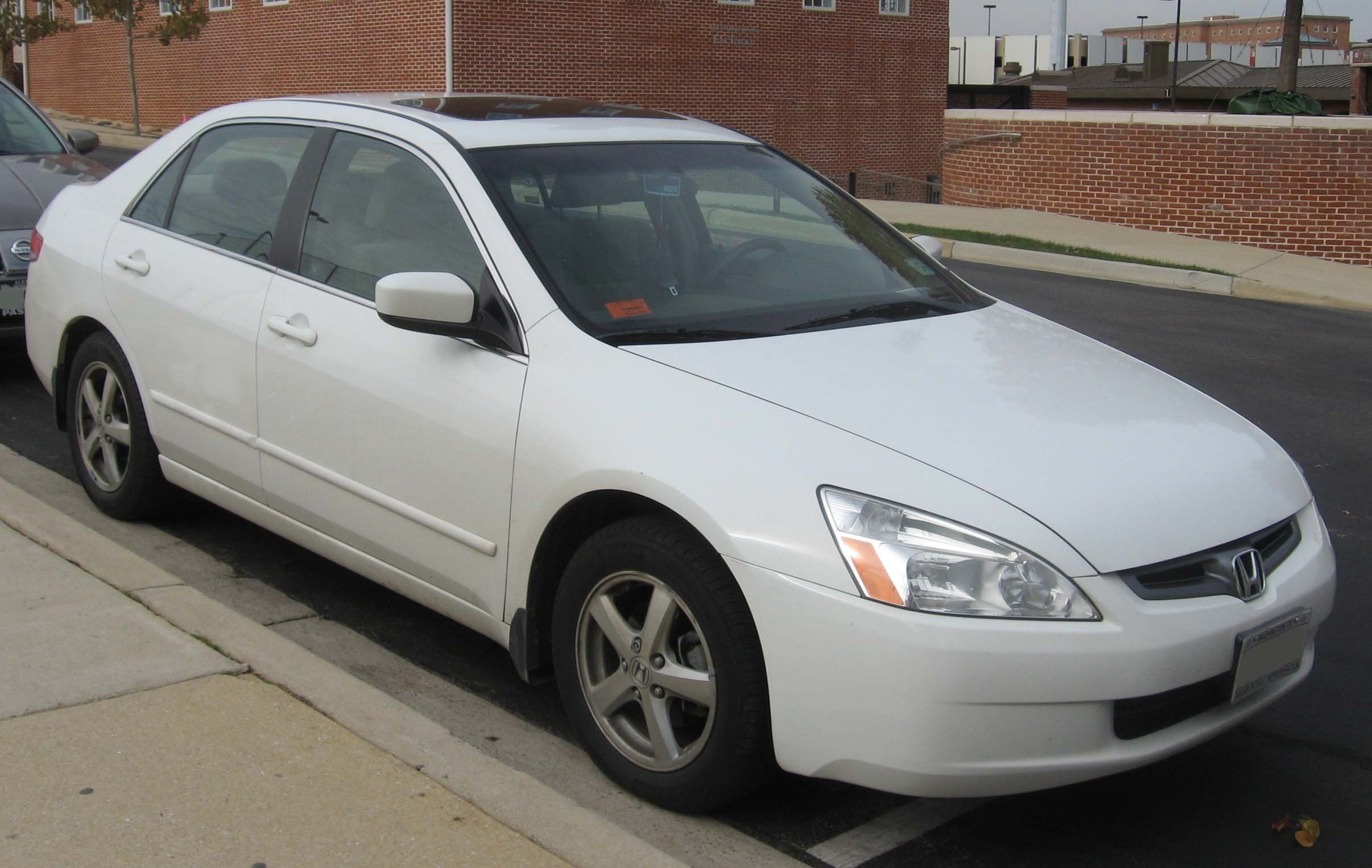 2003-2004 Honda Accord photographed in College Park, Maryland, USA.